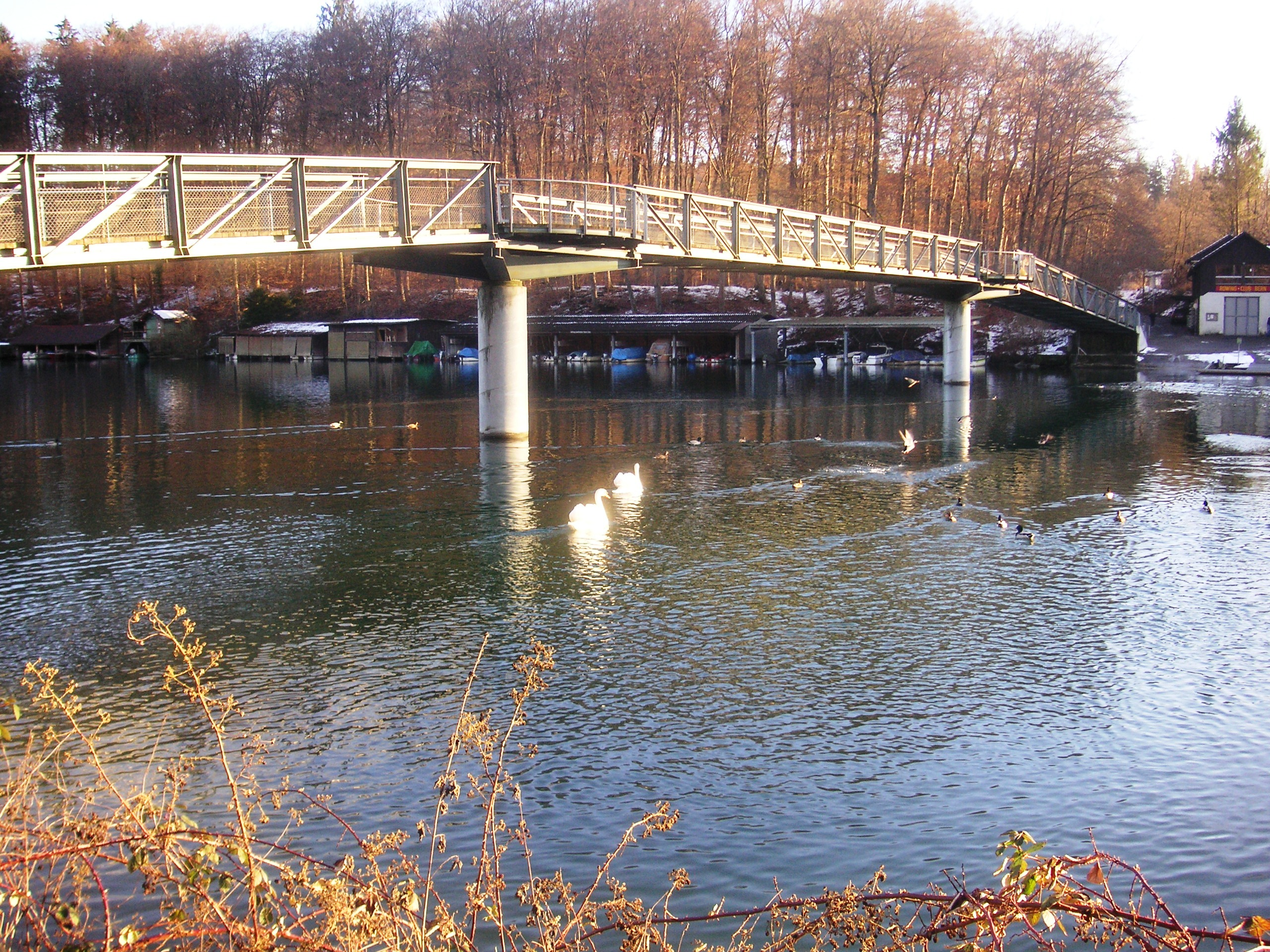 Stägmattsteg, Wohlen bei Bern, Switzerland